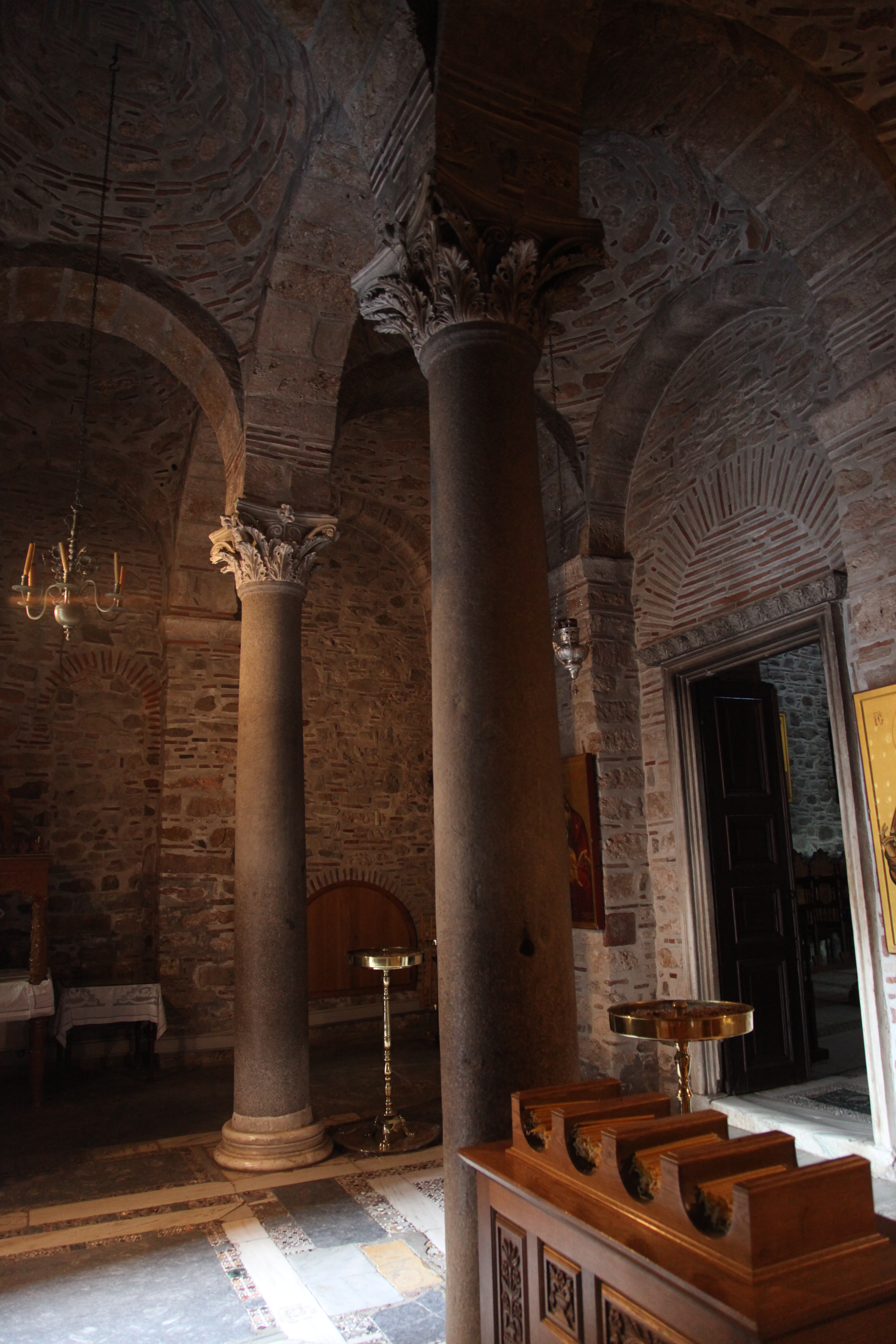 Monastery of Hosios Loukas - Google Maps - Google Earth